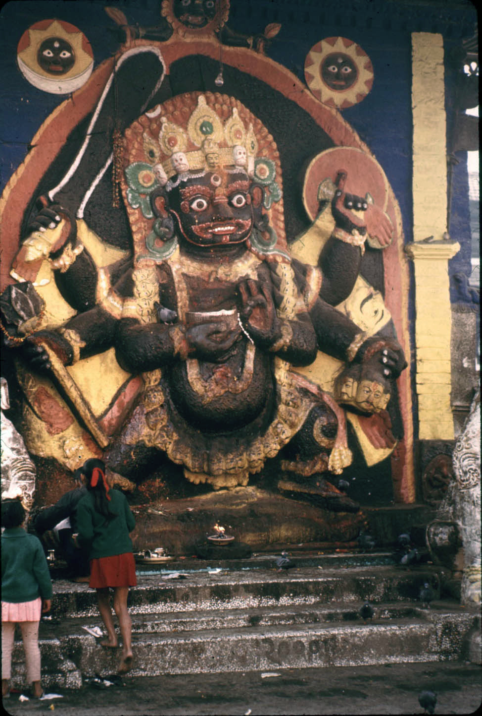 I took this picture with a Canon F-1 in December, 1972, and subsequently scanned the slide into digital form. It shows the sculpture of the god Bhairava in the Kathmandu market place.